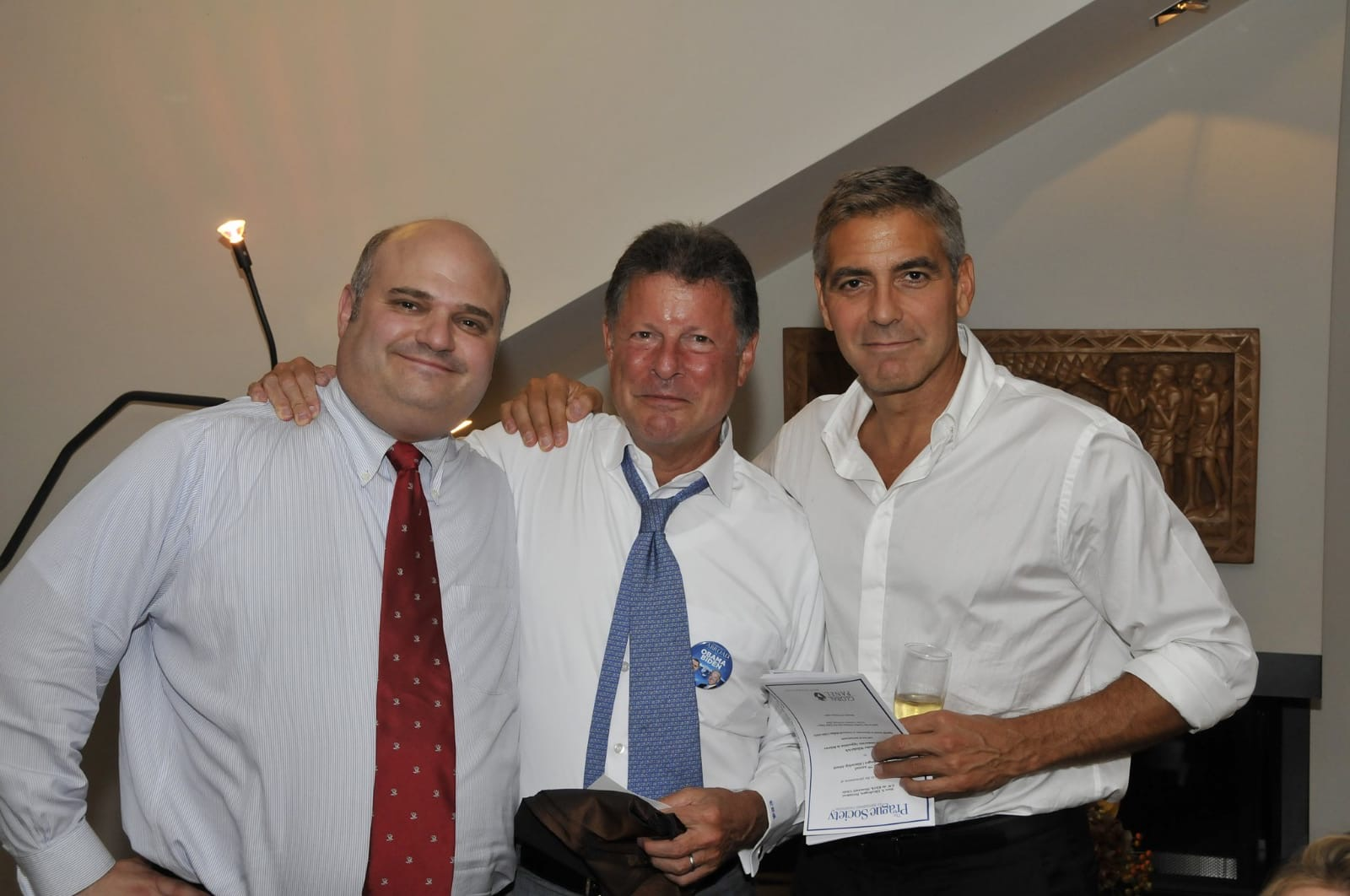 Marc Ellenbogen, George Clooney and Charles C Adams